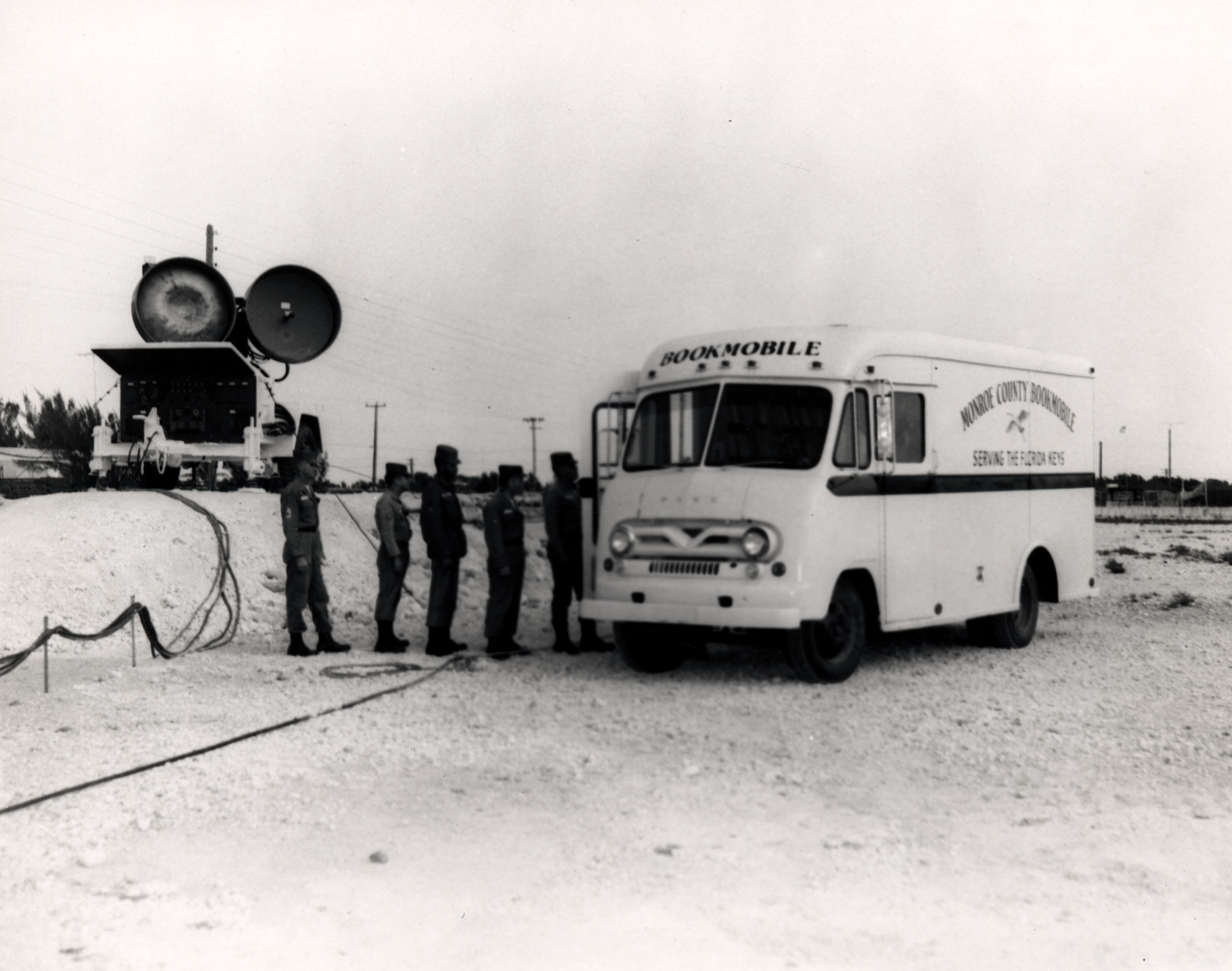 Monroe County Library Bookmobile at Charlie Battery of the Sixth Missile Battalion on March 1, 1964. U.S. Navy photo.